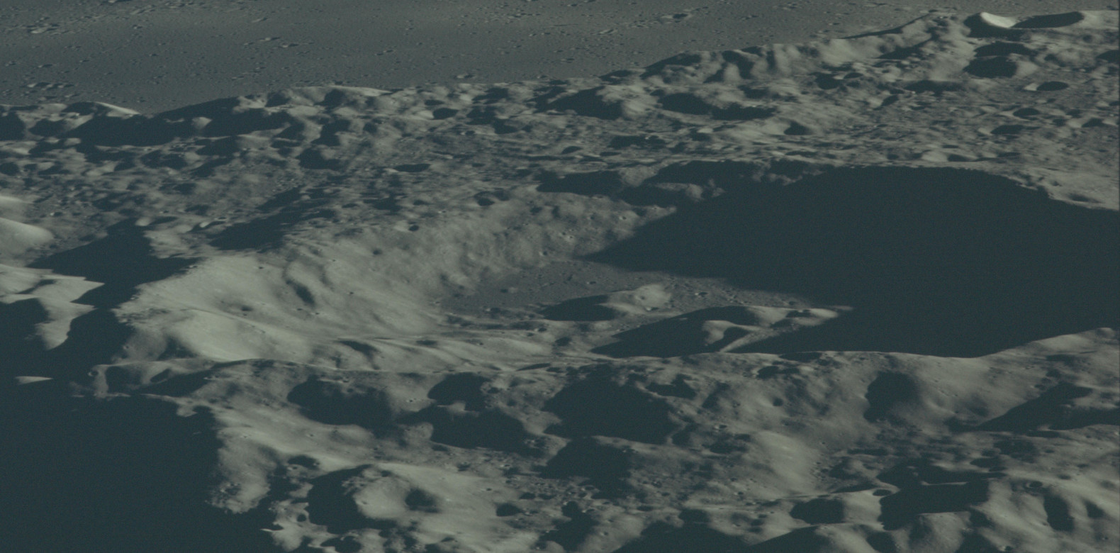 Highly oblique view of Zelinskiy crater, adjacent to Mare Ingenii, on the far side of the moon.